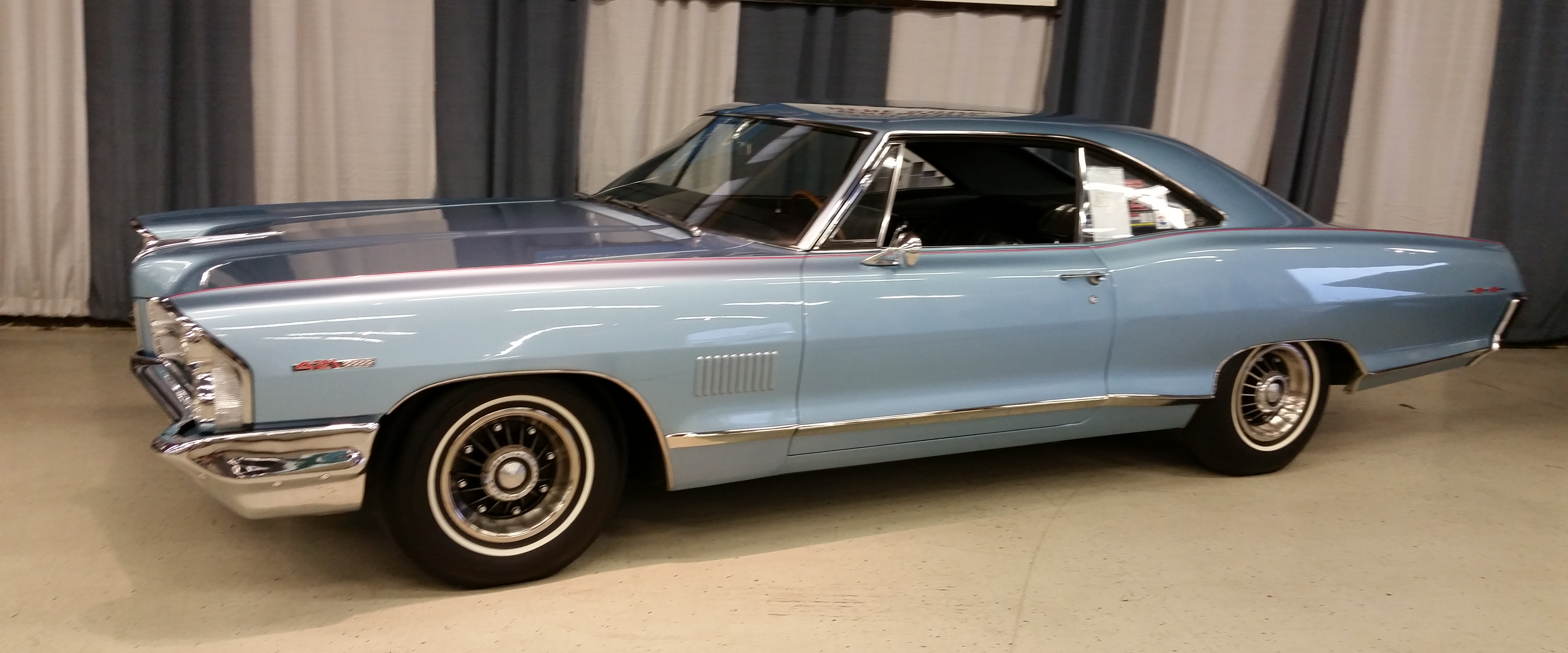 1965 Pontiac Catalina 2+2 hardtop coupe [1]